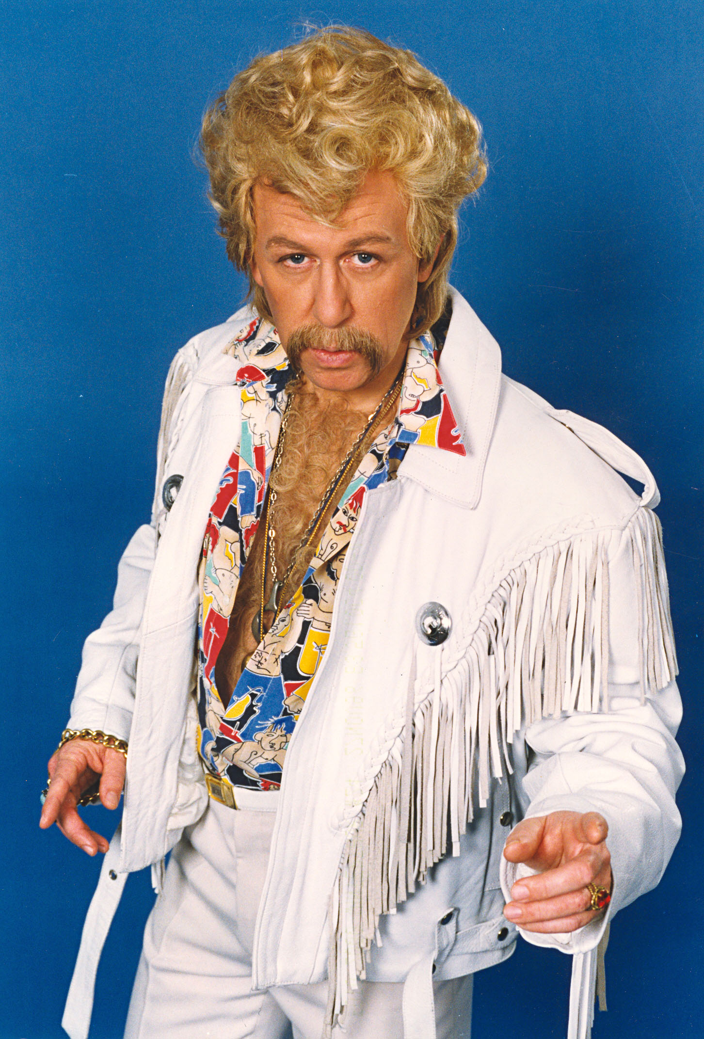 Viktor Giacobbo, Swiss Comedian